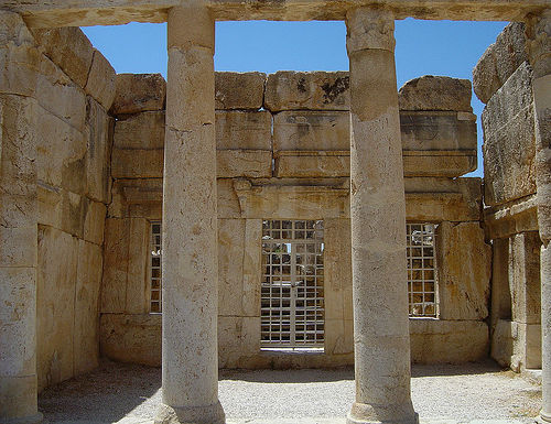 Picture of Qasr Al-Abd Sign (Iraq El-Amir) - Taken in May 2005 by myself. Uploaded for use under GFDL.